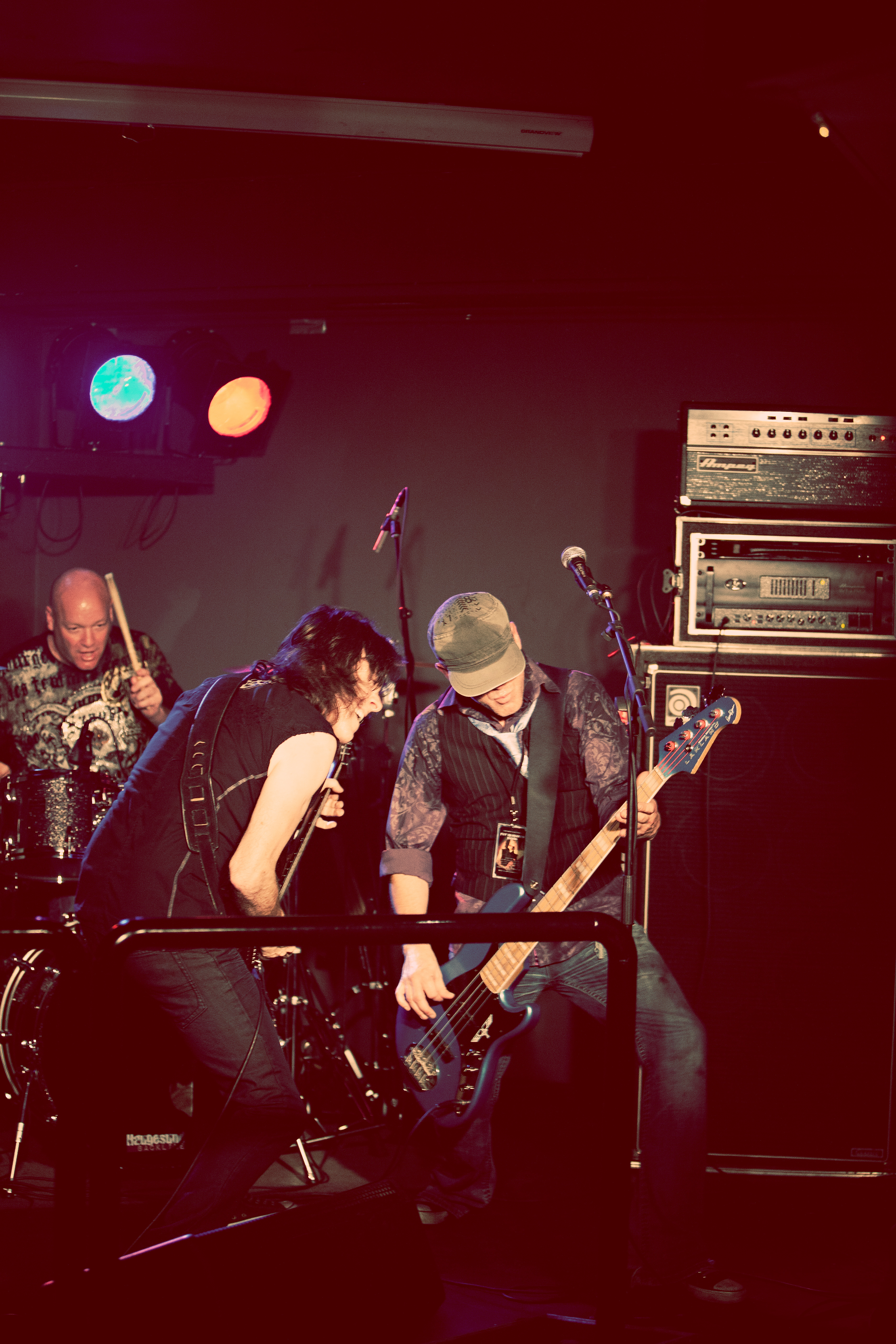 Pat McManus band played at Flytten pub in Haugesund, Norway June 18th, 2011.